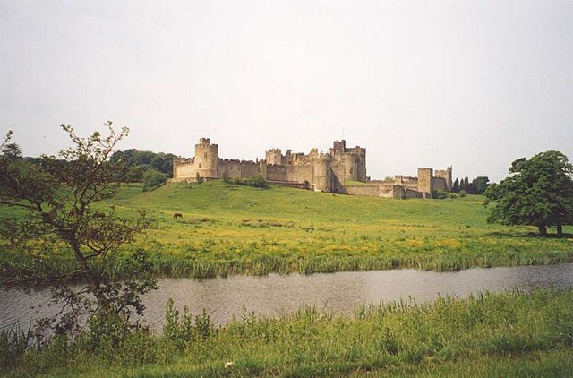 Alnwick Castle